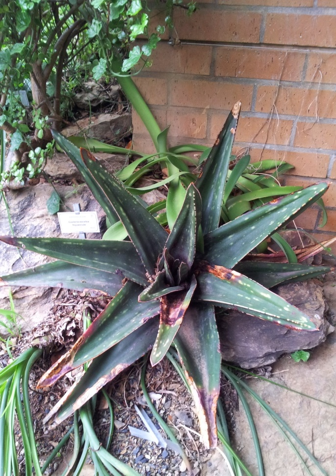 Large Gasteria excelsa - Kirstenbosch gardens - Cape Town